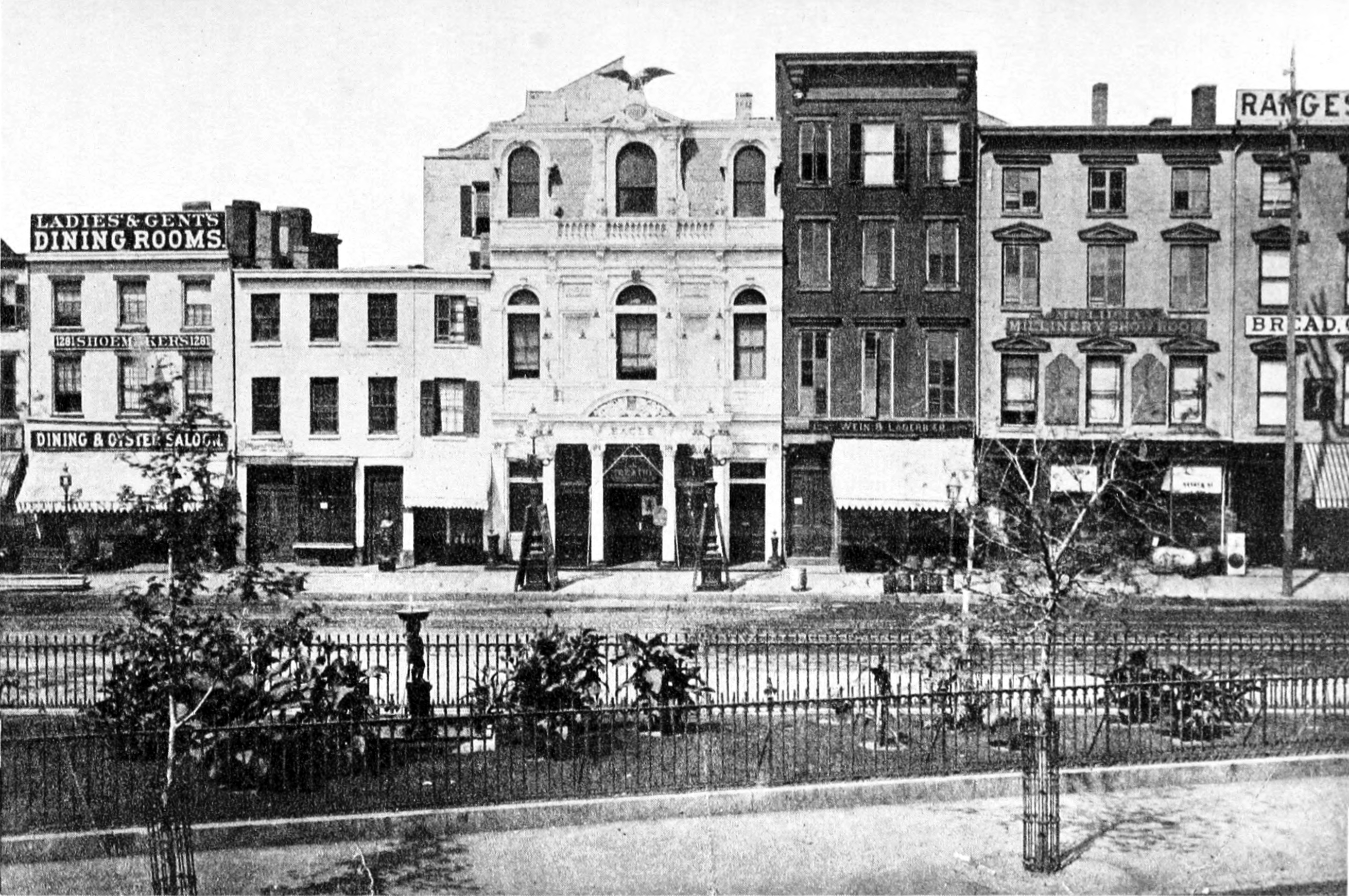 Caption reads: “Greeley Square -- about 1870. Before the elevated railroad was built. Now the site of Gimbel’s store.” The Eagle Theatre, on the west side of the square, between 32nd and 33rd Streets, is visible at center. For information on the Eagle Theatre, including dates of existence (1875-8), see Brown, Thomas Allston A History of the New York Stage, Vol. 3. (Dodd, Mead and Company, New York, 1903), pp. 235-40.